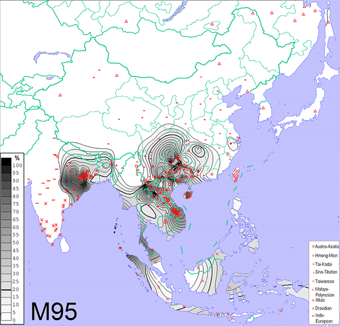 Geographic distributions of Y-DNA haplogroup O2-M95 frequency.